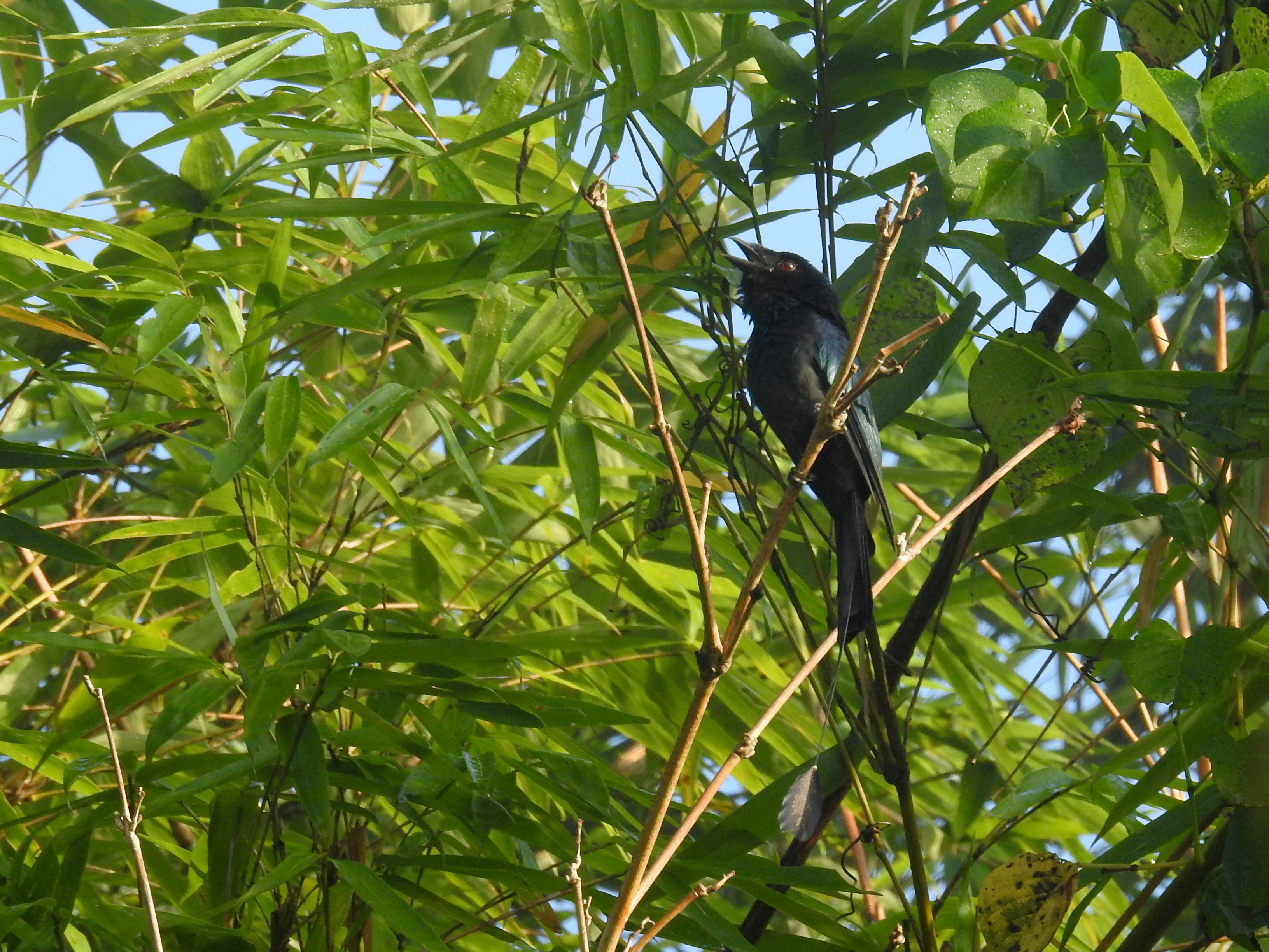 Lesser Racket-tailed Drongo in Dampa Tiger Reserve, Mizoram, India